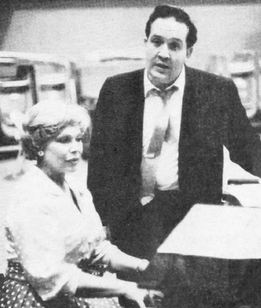 Photo of jinglewriters Joan Edwards (left) and Lyn Duddy from the August 1960 issue of US Radio magazine. A search for renewal was done in at . There were no renewals listed for US Radio. There were 2 newer original registrations listed, but neither are connected with this publication. There's no evidence of renewal for this magazine.